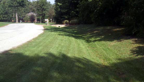 View of a grass-lined channel, also called a grassy swale or bioswale, in the United States